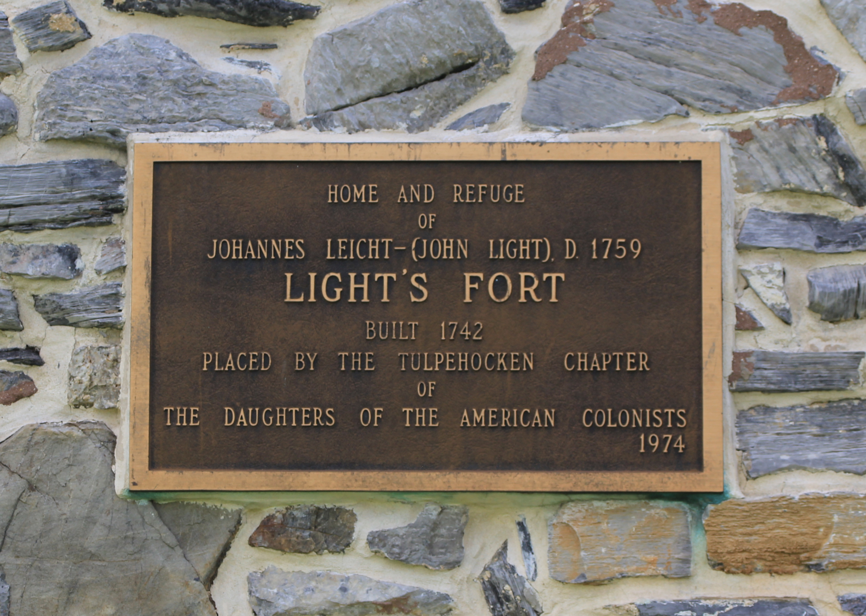 Light's Fort - View of the Bronze Plaque on the Exterior of the Building.